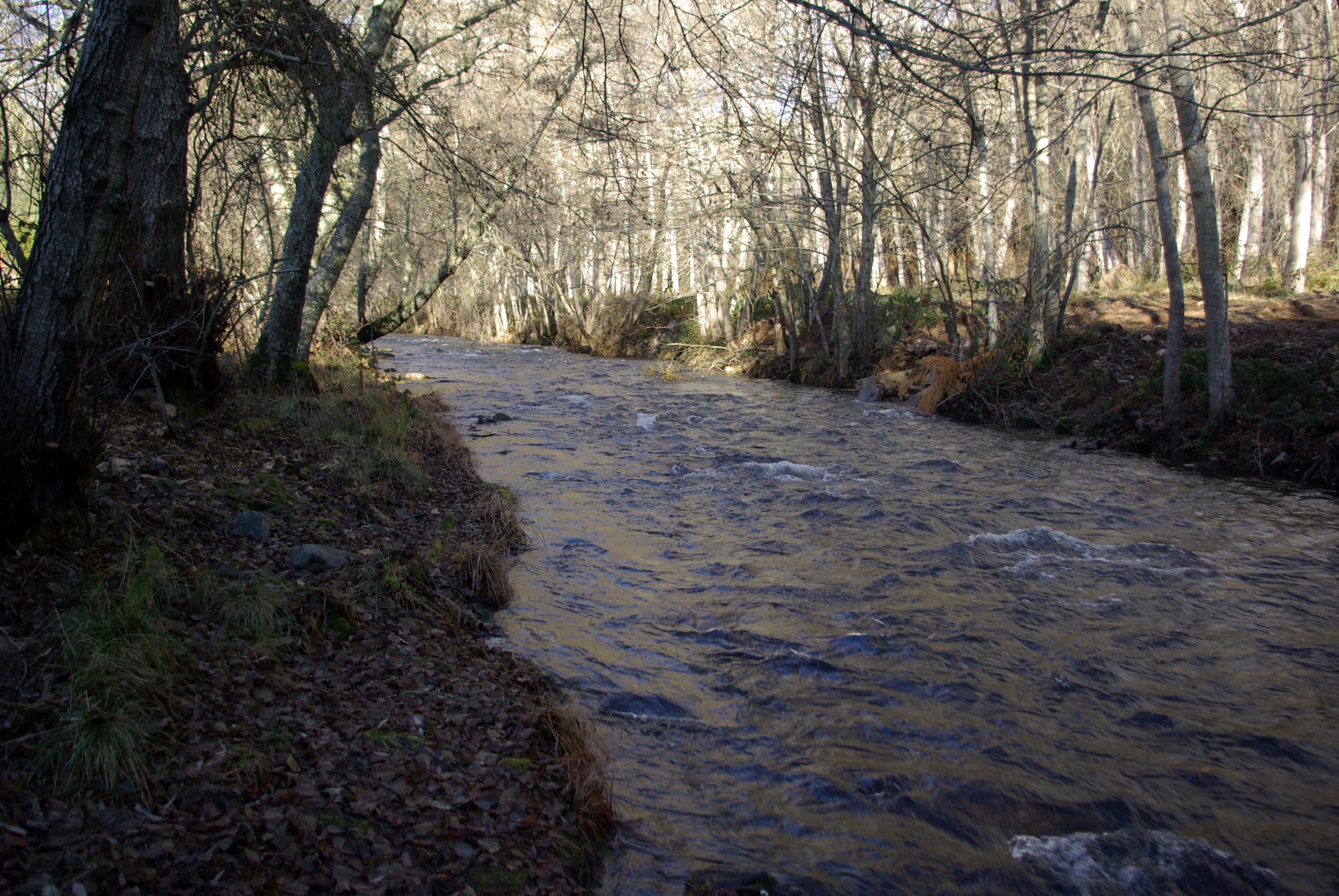 River Ancares very close its mouth in river Cúa, near Espanillo (Arganza, León, Spain)